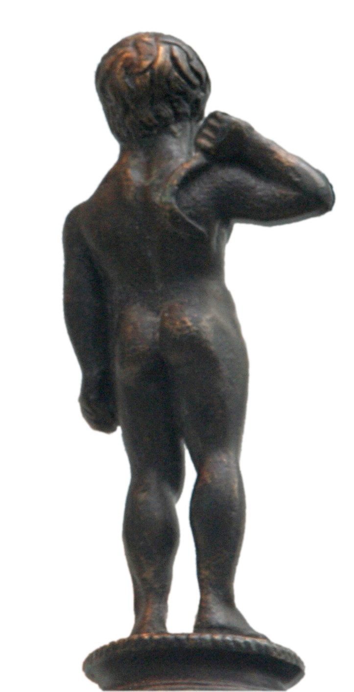 Statue of a athlete using strigiles Photographed by myself in Glyptothek Munich.